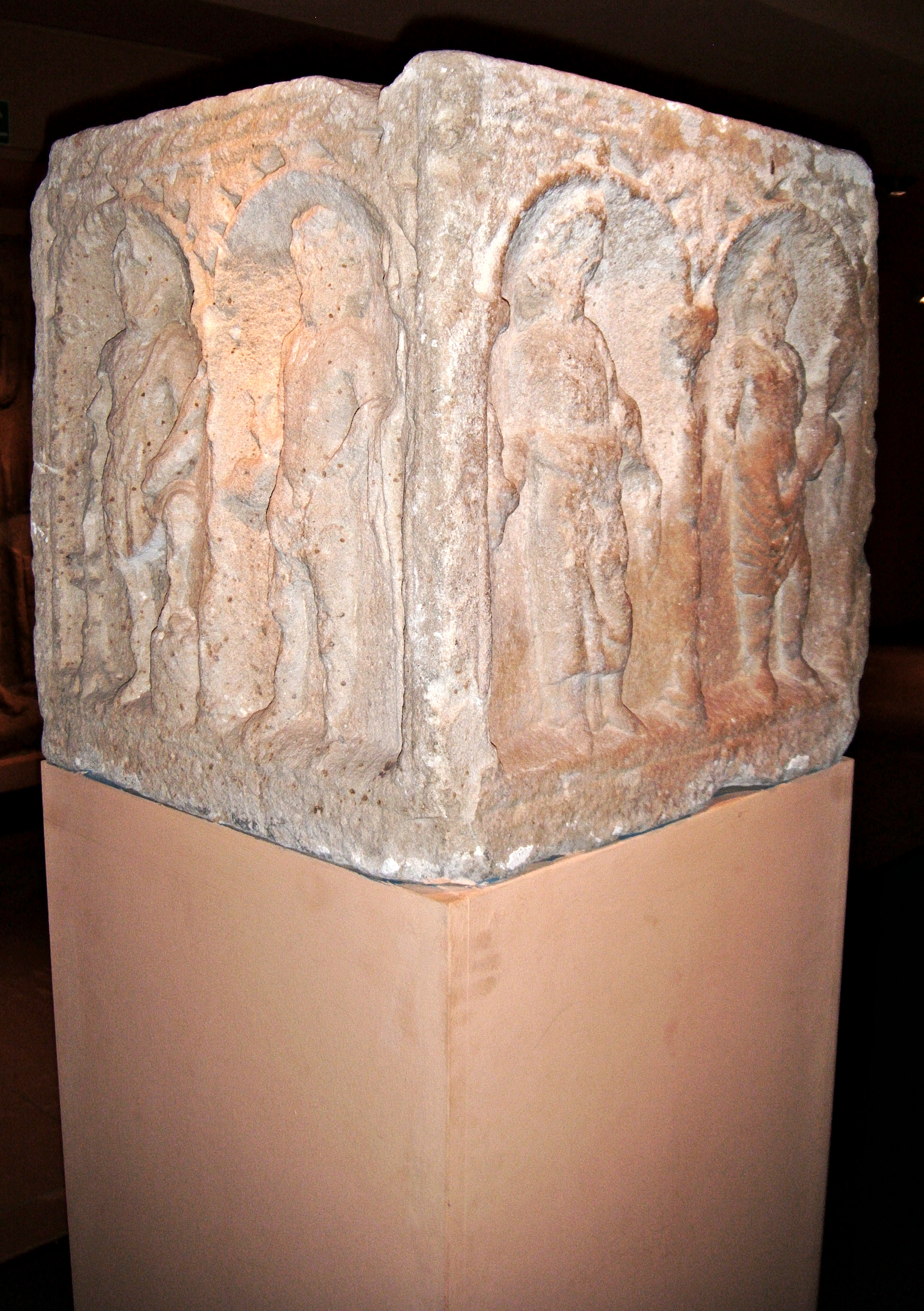 Römischer Achtgötterstein von Dannstadt, heute Historisches Museum der Pfalz, Speyer